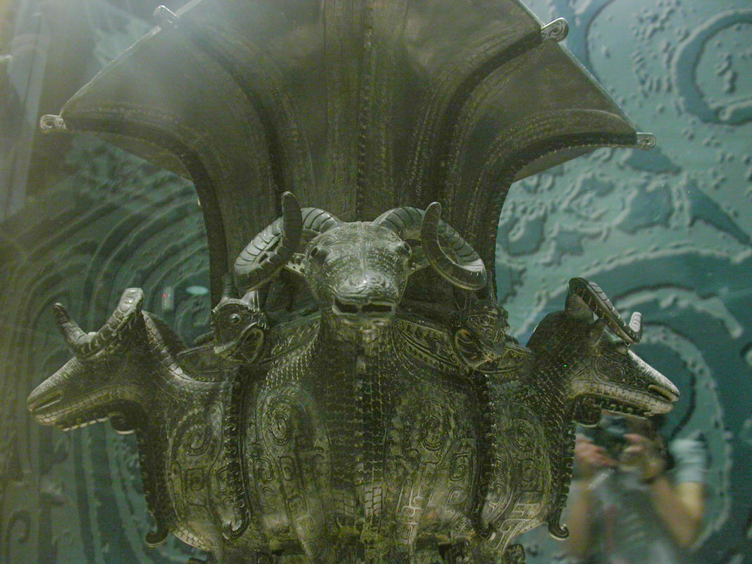 Square zun with four sheep. Late period of the Shang Dynasty (13th century B.C ~ 10th century B.C). Collection of the National Museum of China. Take photo in Exhibition of Ancient Chinese Invention Artifacts, China Science and Technology Museum in Beijing on 2008. Photo Permited. 中文（中国大陆）: 四羊方尊，商代晚期（公元前13～前10世纪），1938年湖南宁乡月山铺出土，中国国家博物馆藏。拍摄于2008年中国科技馆中国古代发明创造文物展，许可拍照。